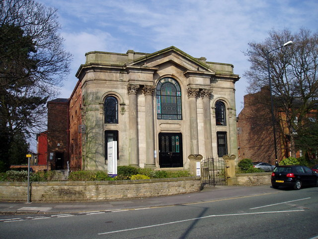 Former Union Baptist Chapel, Edge Lane, Stretford, Greater Manchester, seen from the southwest